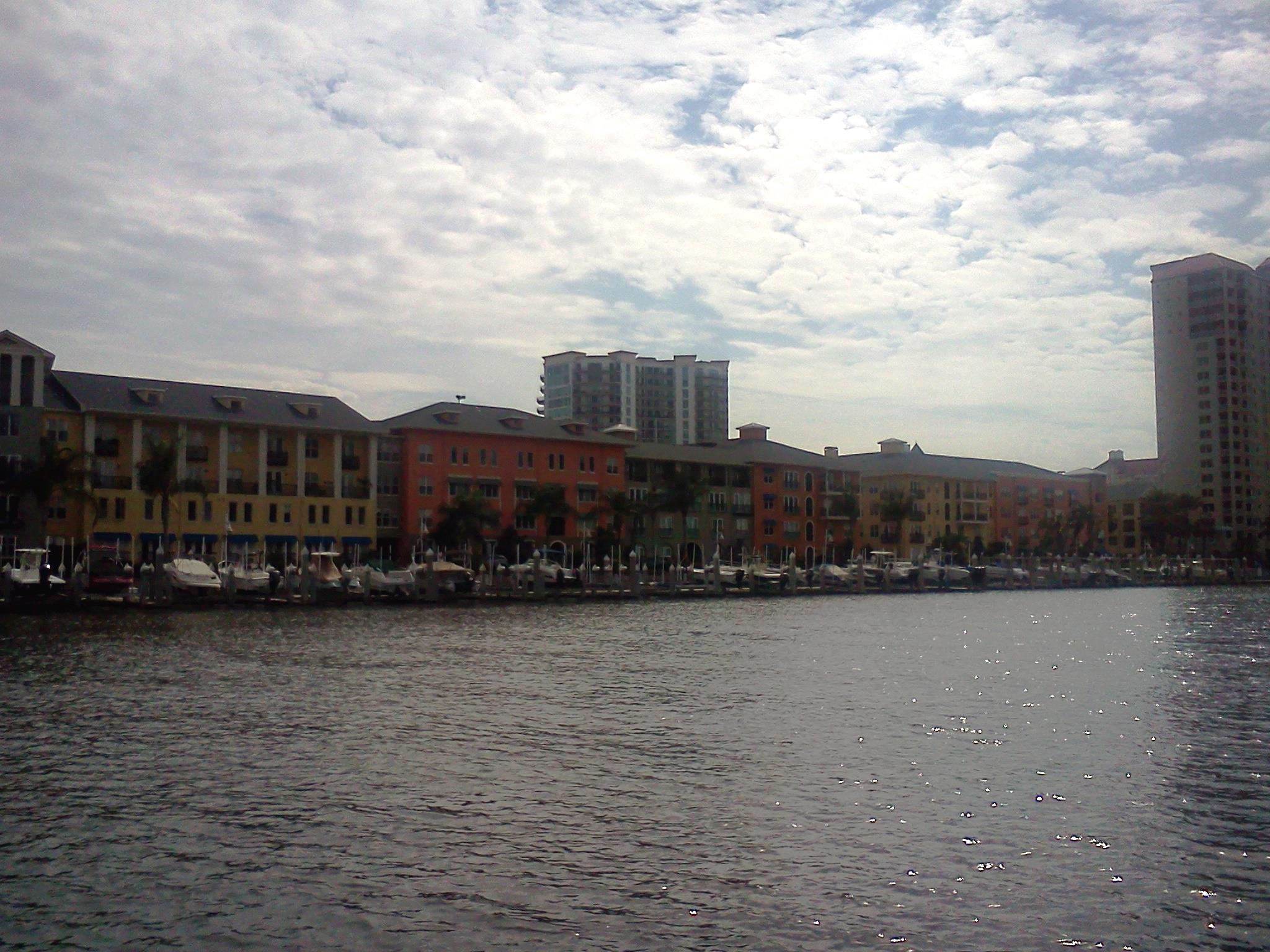 Harbor Island, view from Channel District